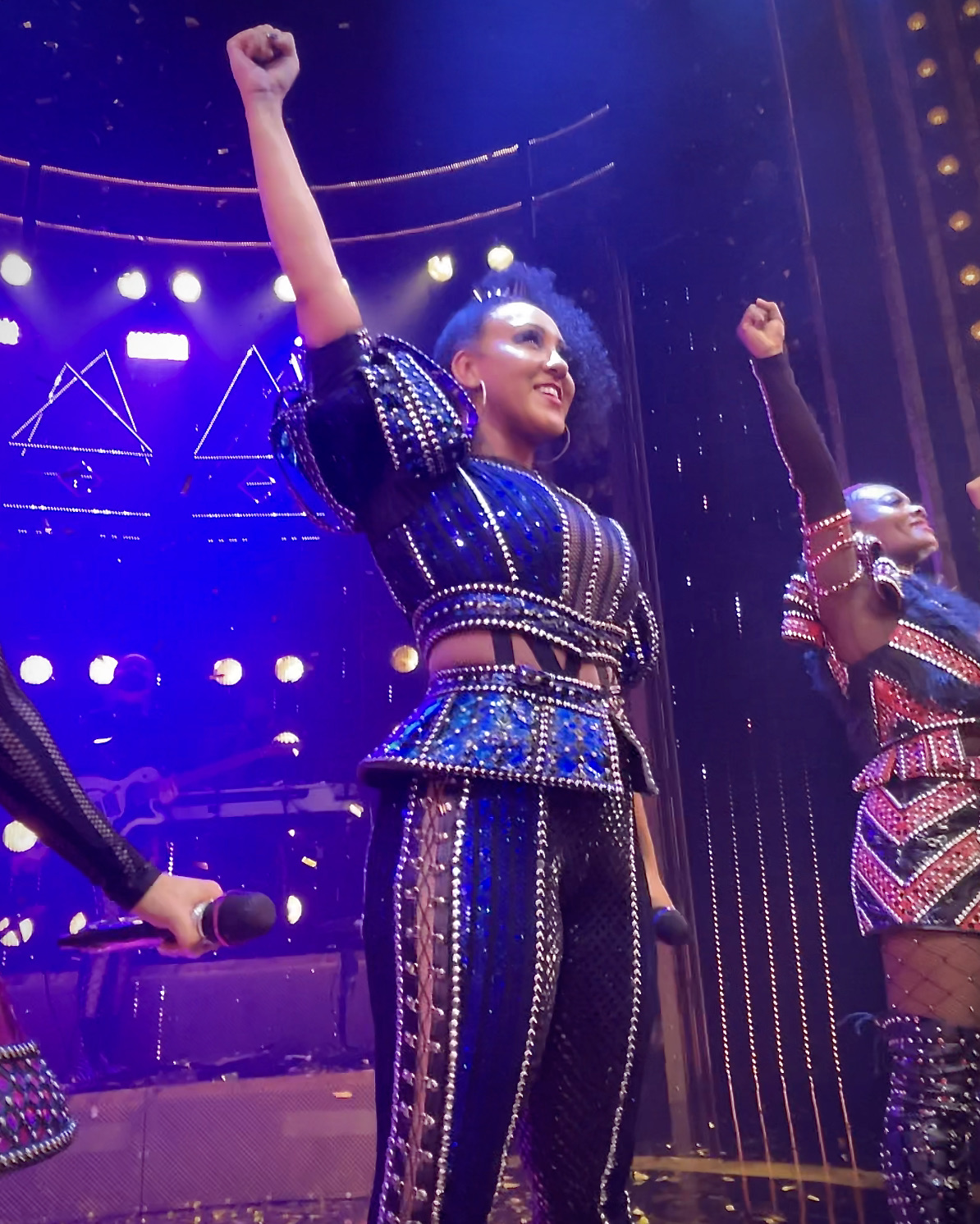 Steers performing in Six in January 2020